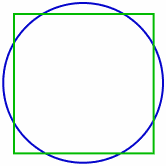 Squaring the circle